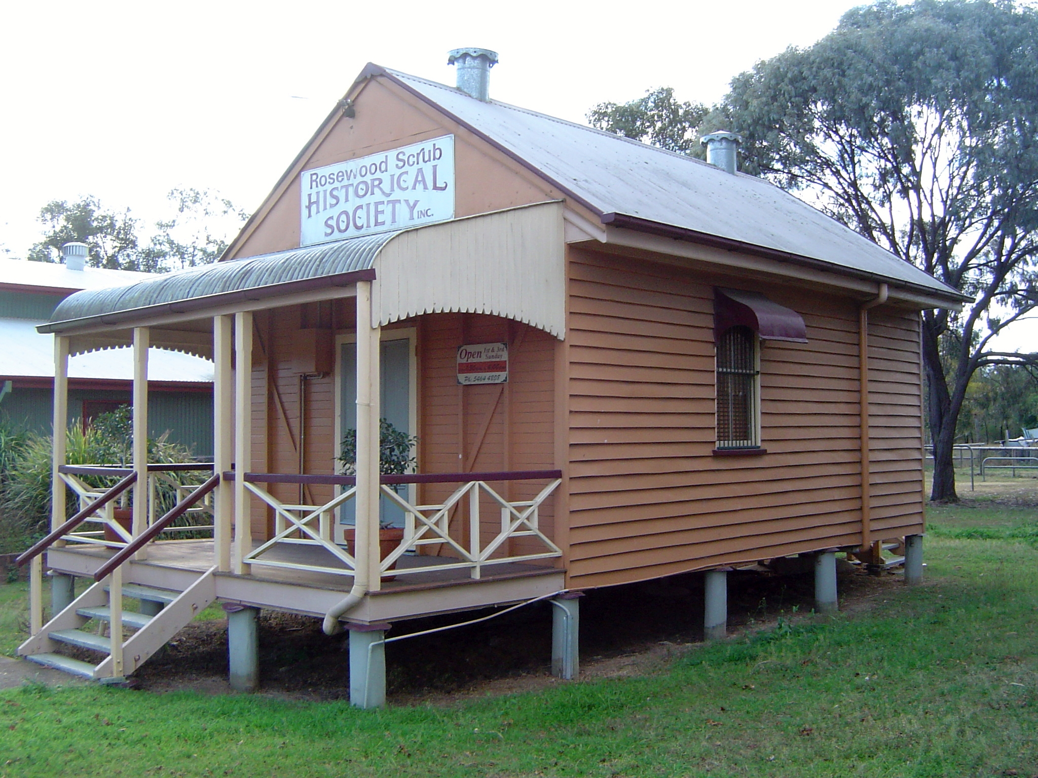 Photo of Rosewood Historical Society building at Marburg, Ipswich, Queensland, Australia.